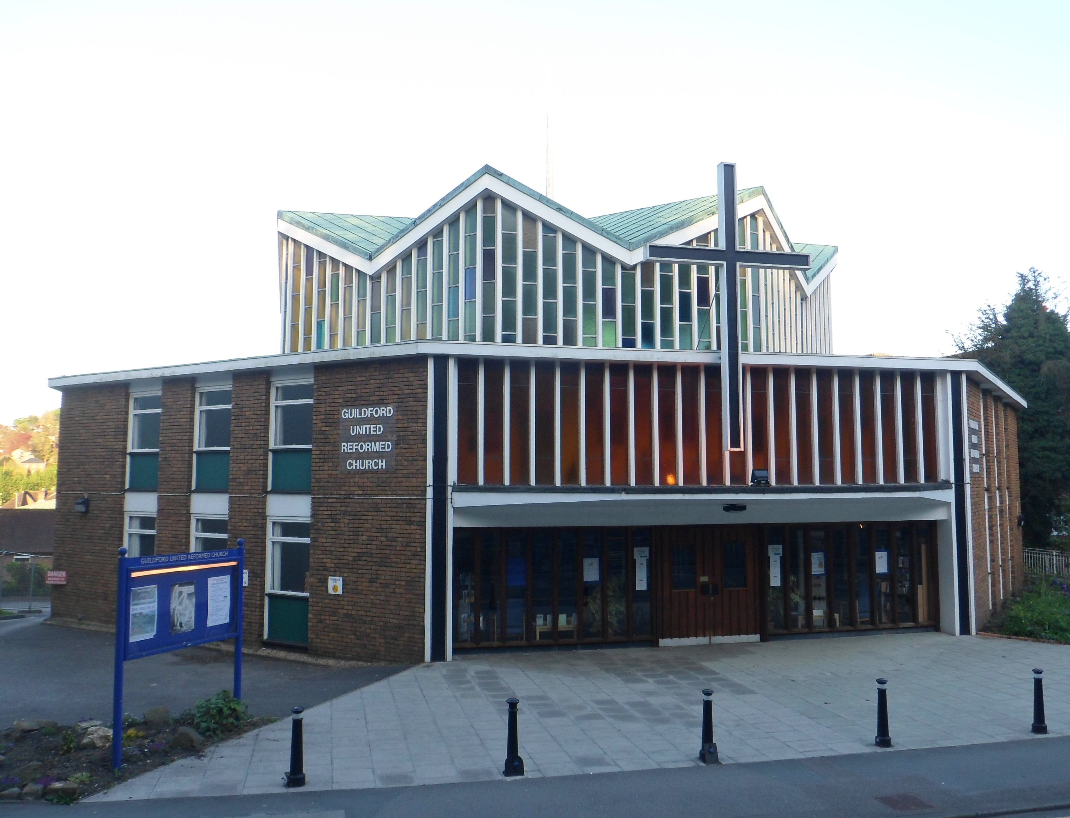 Guildford United Reformed Church, Portsmouth Road, Guildford, Borough of Guildford, Surrey, England. This 1965 building replaced the original Congregational chapel on North Street.